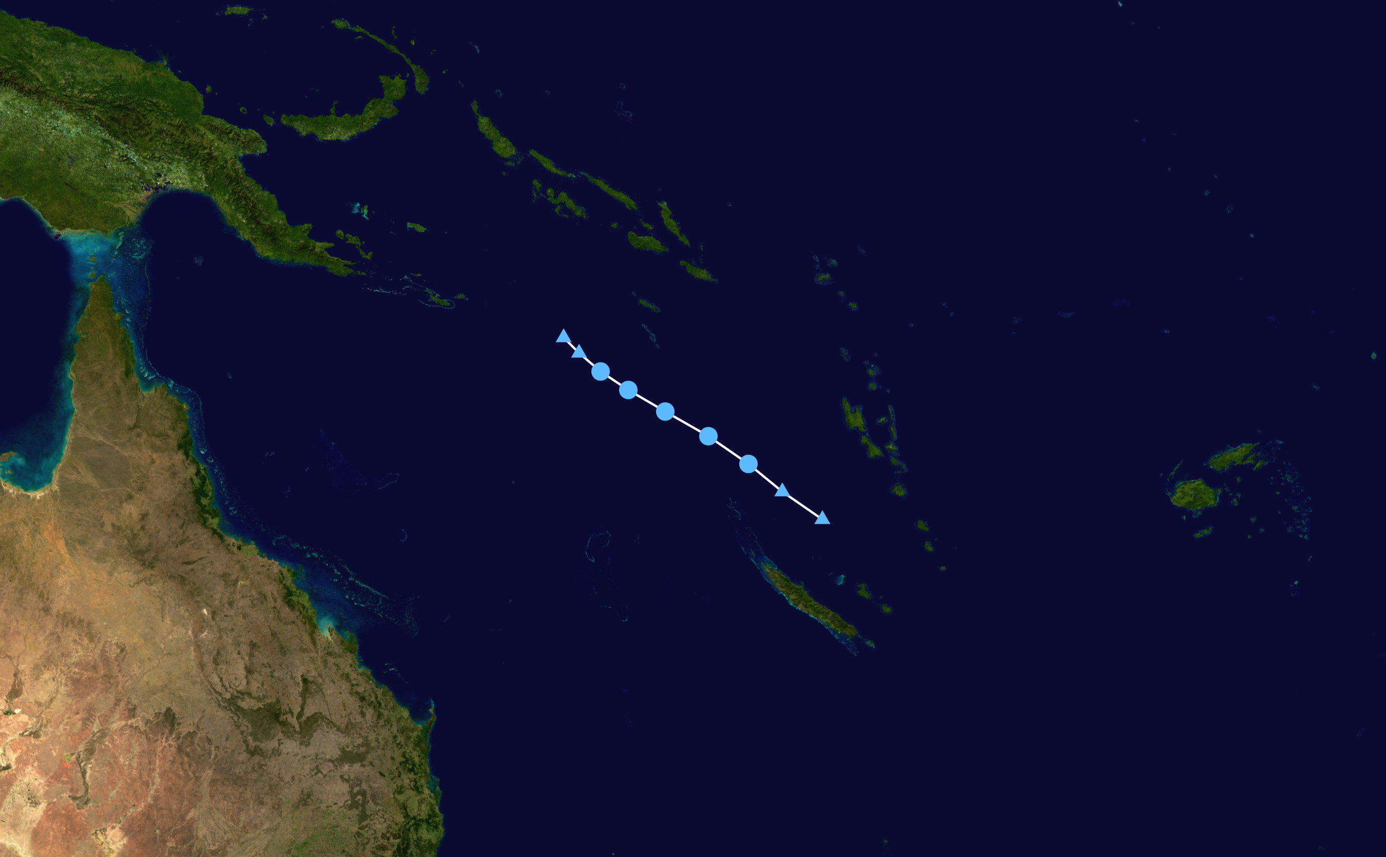 Track map of Tropical Depression 16F of the 2007-08 South Pacific cyclone season. The points show the location of the storm at 6-hour intervals. The colour represents the storm's maximum sustained wind speeds as classified in the Saffir–Simpson scale (see below), and the shape of the data points represent the nature of the storm, according to the legend below. Saffir–Simpson scale Tropical depression≤38 mph≤62 km/h Category 3111–129 mph178–208 km/h Tropical storm39–73 mph63–118 km/h Category 4130–156 mph209–251 km/h Category 174–95 mph119–153 km/h Category 5≥157 mph≥252 km/h Category 296–110 mph154–177 km/h Unknown Storm type Tropical cyclone Subtropical cyclone Extratropical cyclone / Remnant low / Tropical disturbance / Monsoon depression